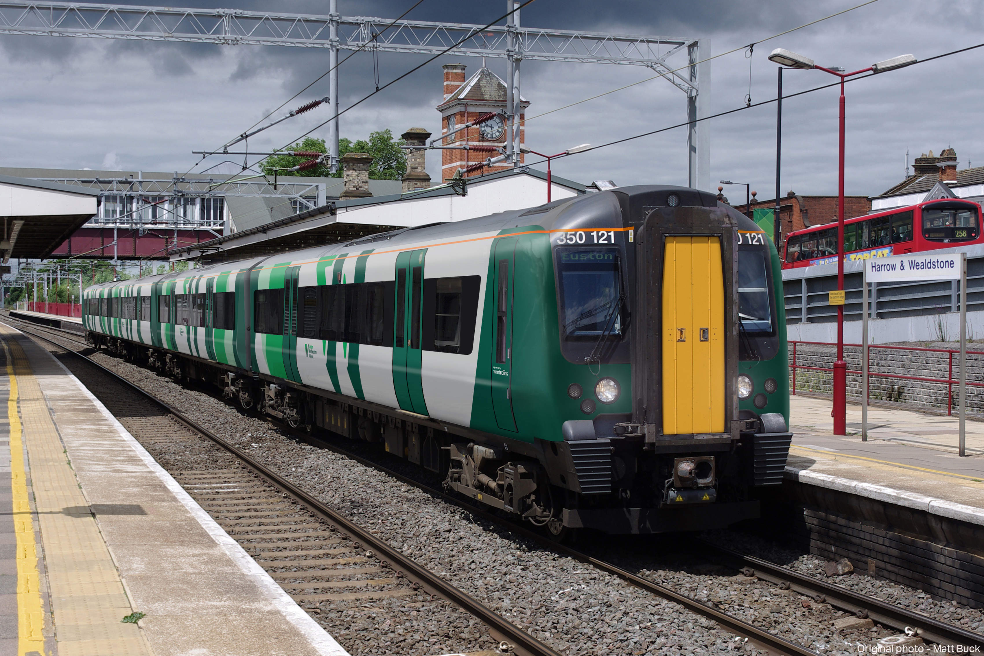 Class 350 Proposed Livery for LNR